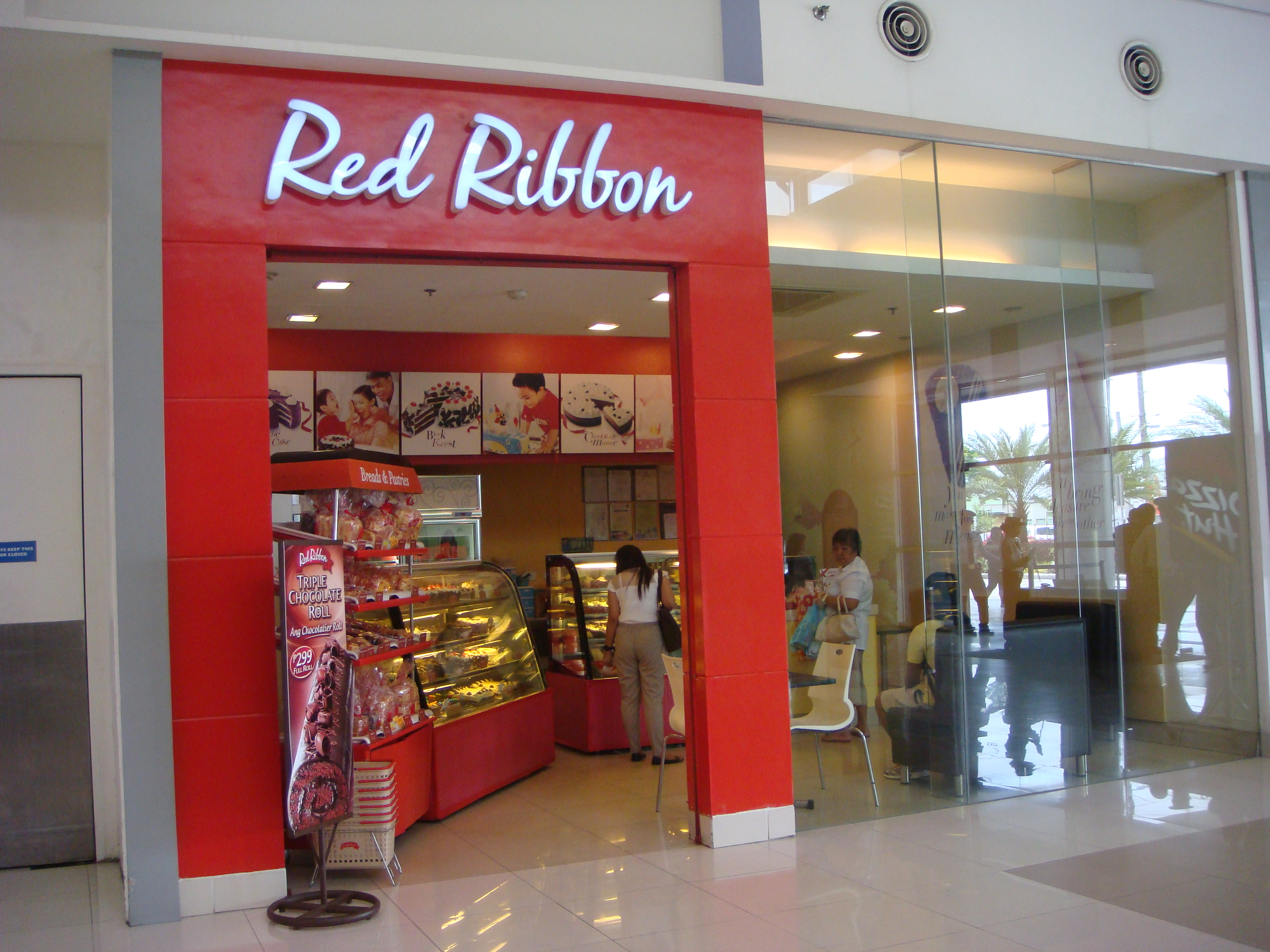 Red Ribbon (bakeshop)[1] at SM City Baliuag